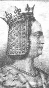 Joan I of Auvergne, Queen of France